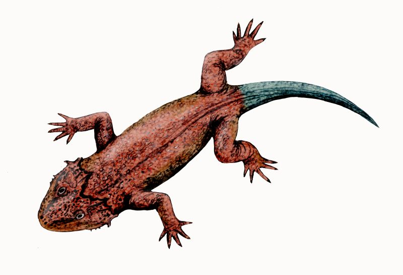 Lanthanosuchus watsoni, digital.